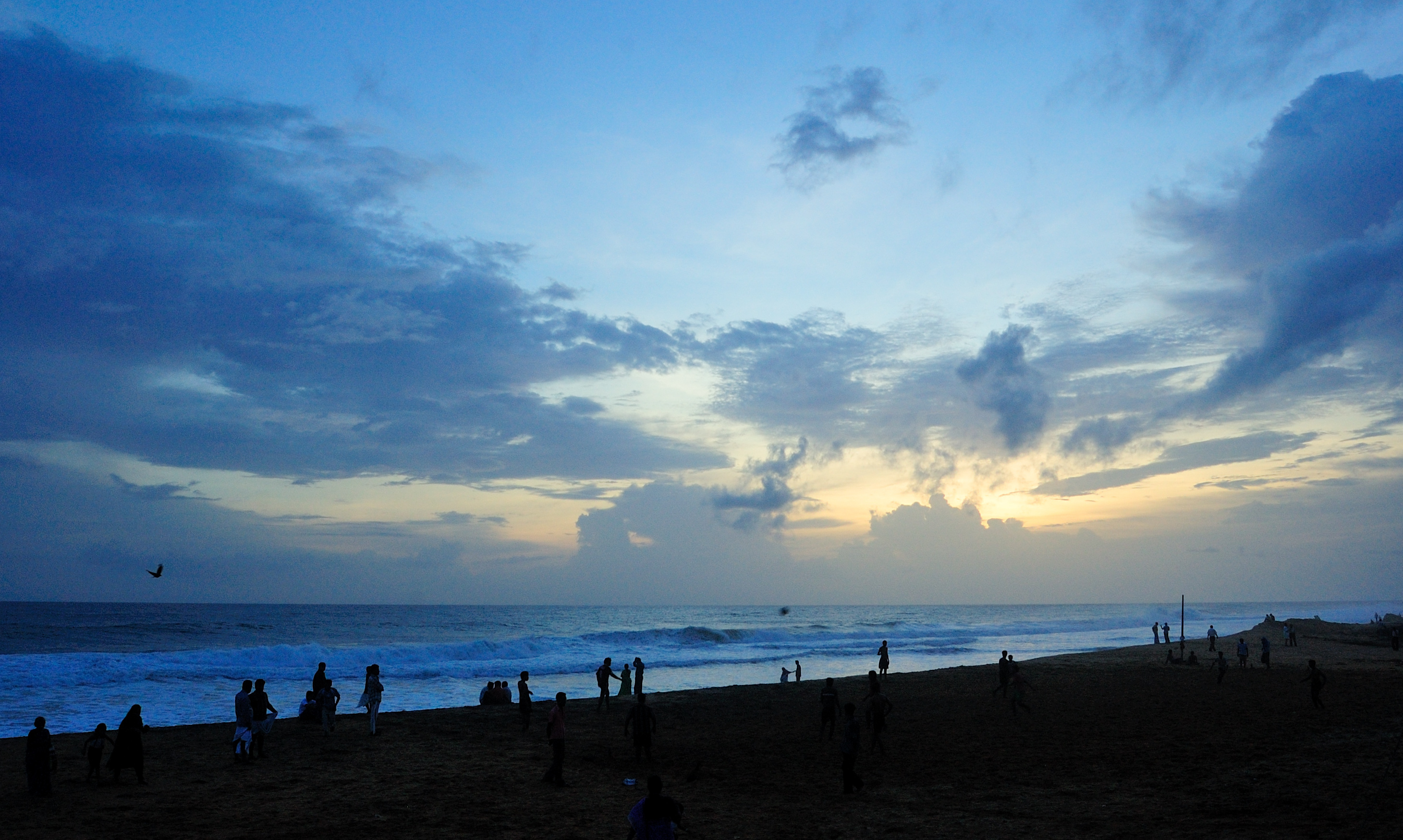 Shankumugam കടല്ത്തീരം - on flikr